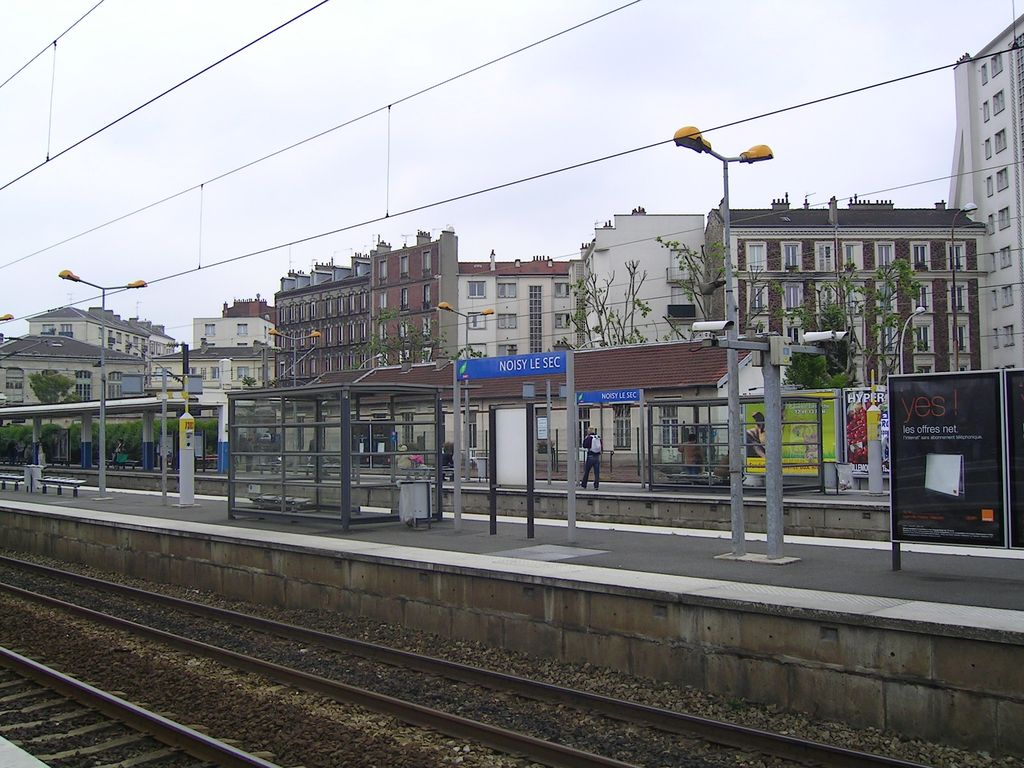 Gare Photo personnelle (own work) de Marianna